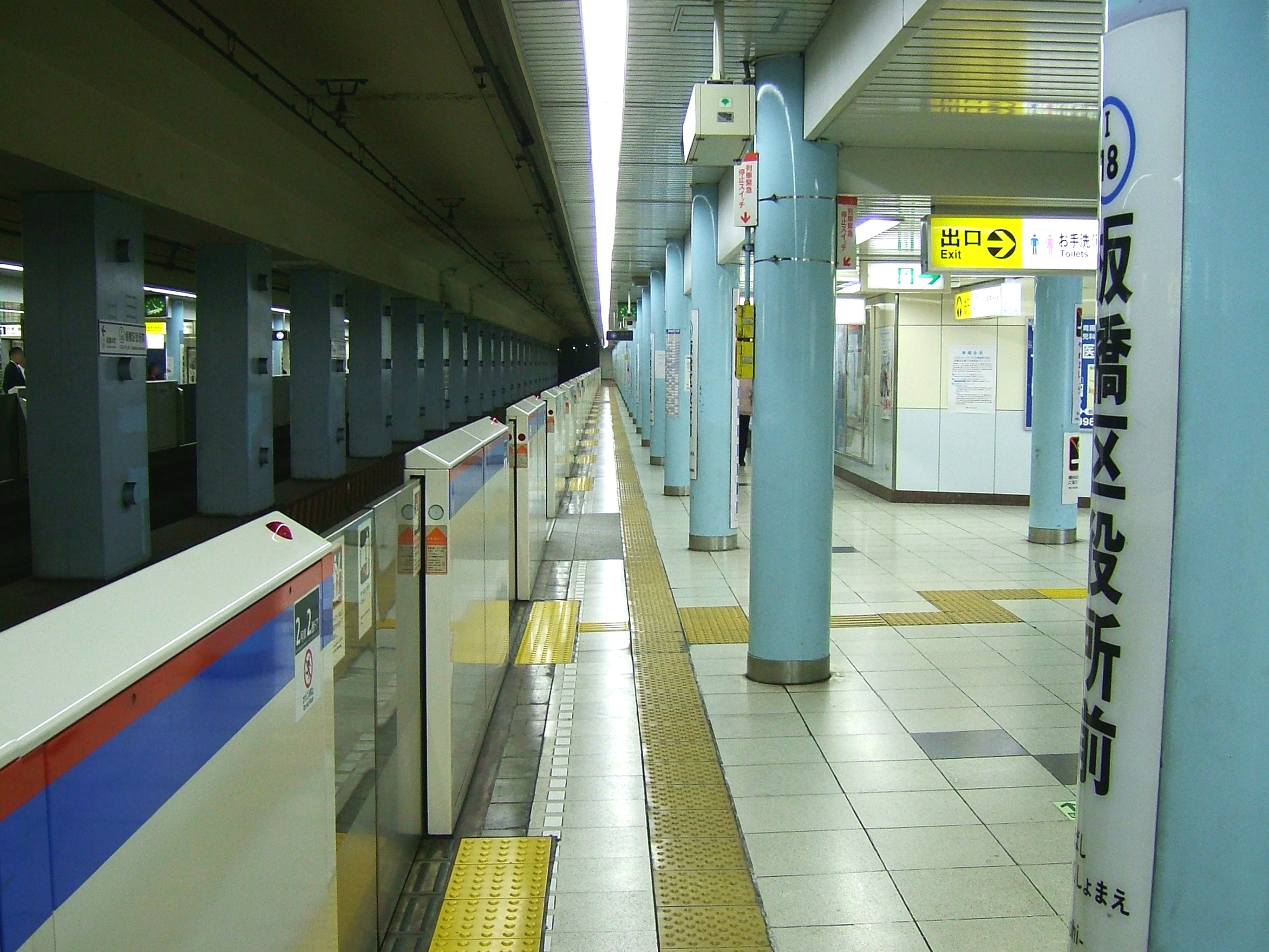 The platforms at Itabashikuyakushomae Station on the Toei Mita Line in Itabashi city, Tokyo, Japan